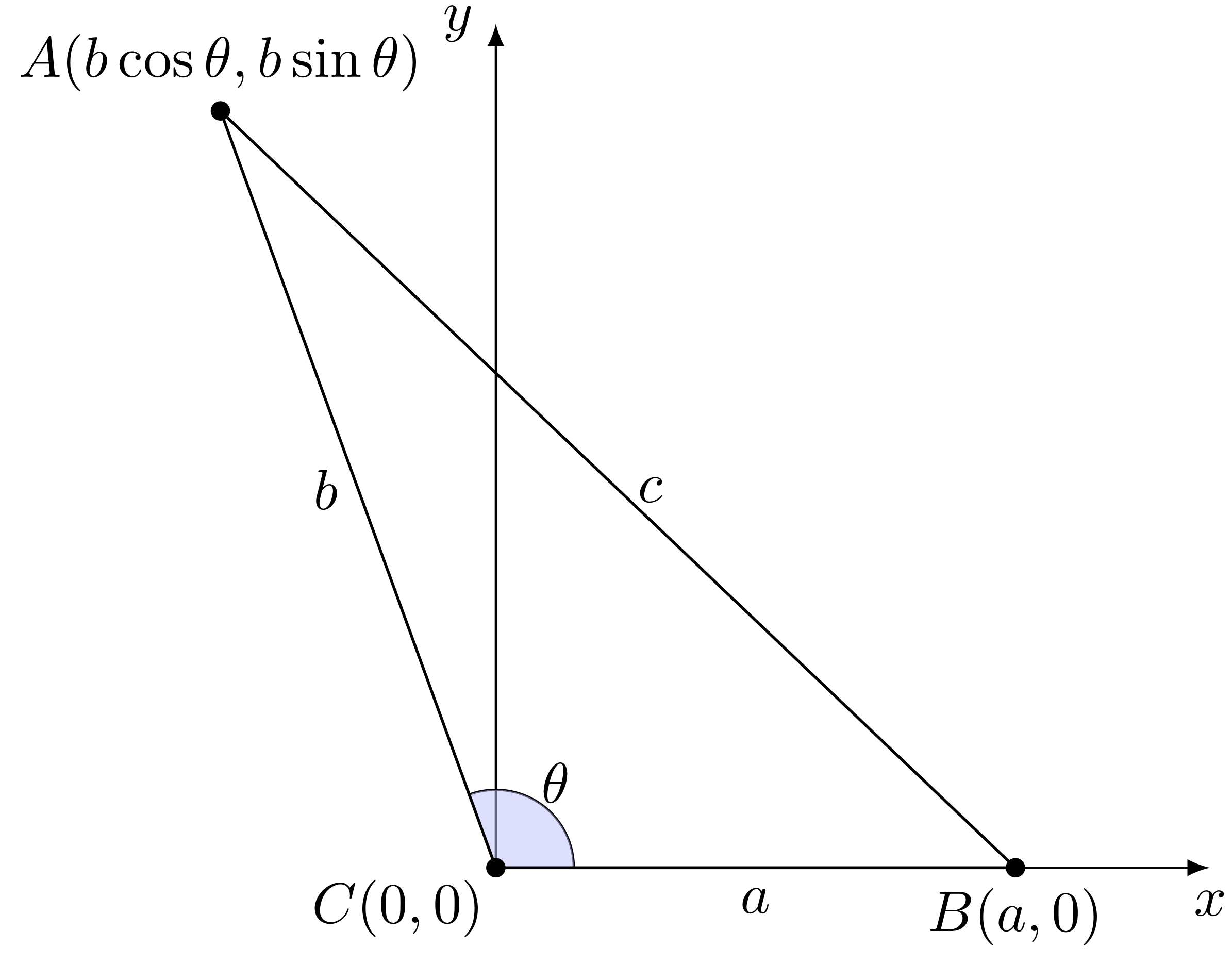 Law of Cosines Coordinate Proof Diagram